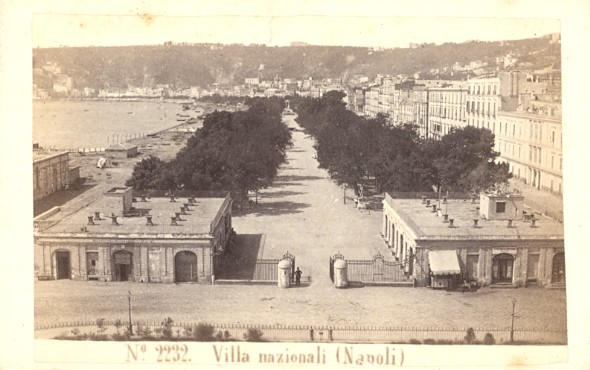 Sommer (1834-1914) & Behles (1841-1924) - "Public Gardens (Naples)". Catalogue # 2232.